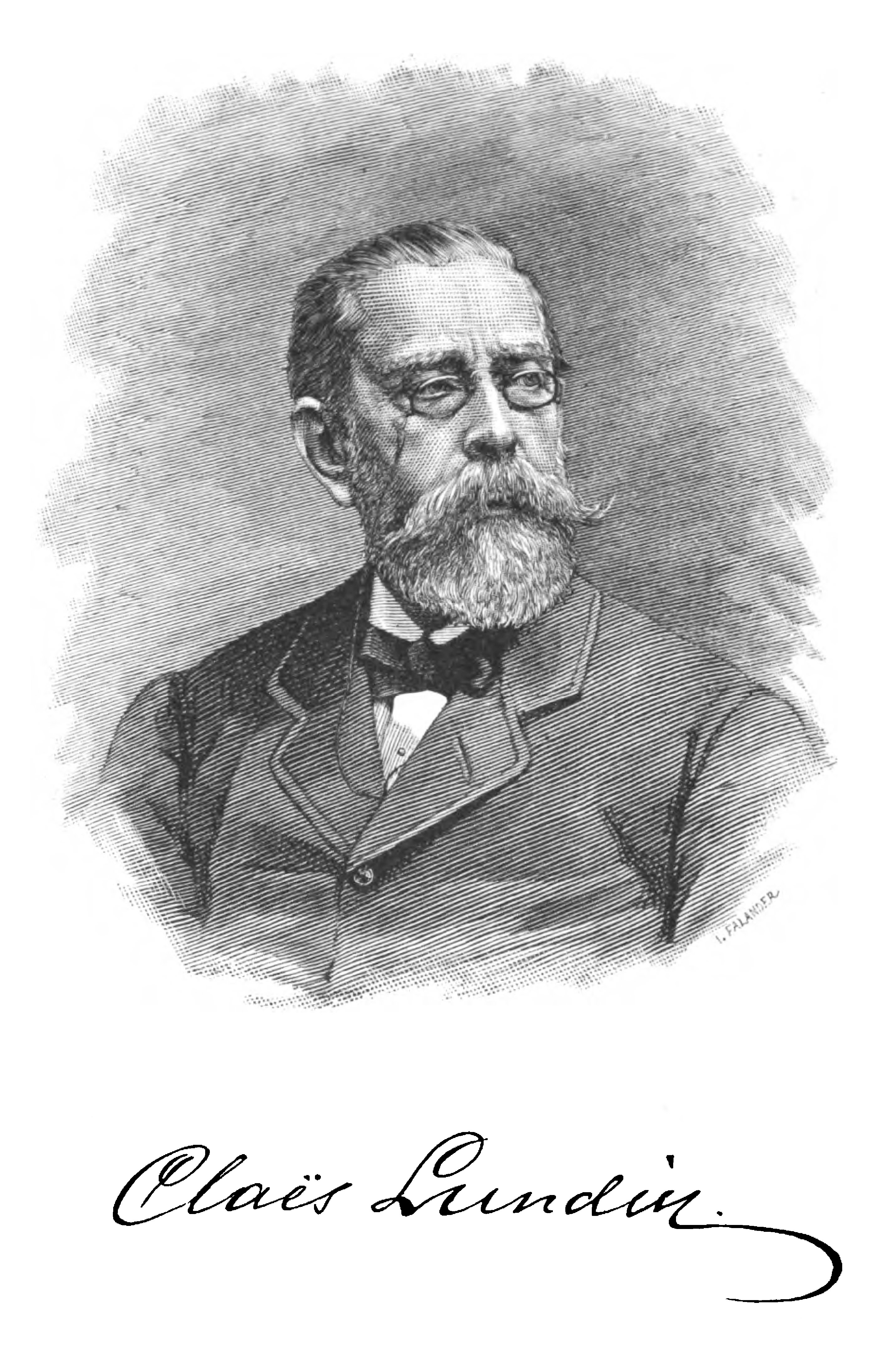 Claës Lundin (1825-1908), Swedish journnalist, critic and author.